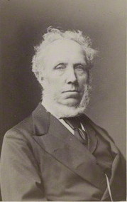 Sir Edward Baines (1800-1890), (photo graph ascribed to Window & Grove) Dated 1870. A Carte de visite using albumen